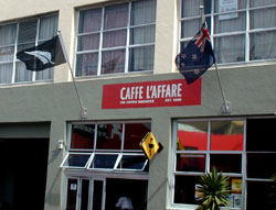 NZ Trust picture of Silver fern flag and current Flag of New Zealand on the Caffe L'affare building in Wellington.